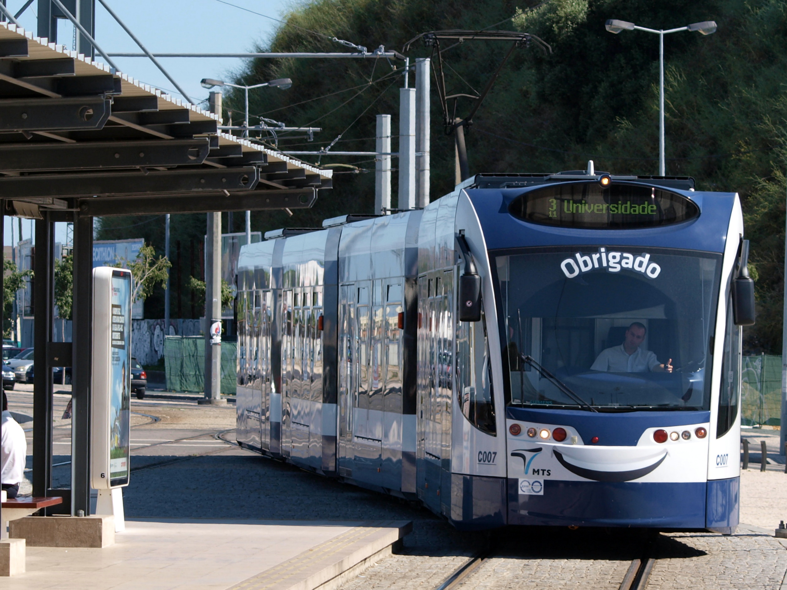 Photographed in Portugal.